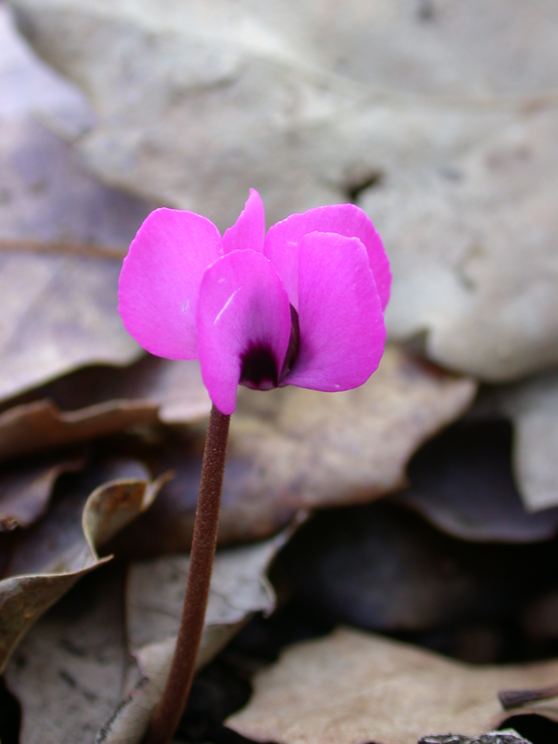 Cyclamen coum Mill. (רקפת יוונית), Mount Meiron, Upper Galilee, Israel, January 31, 2006.